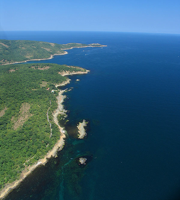 cape Maslen